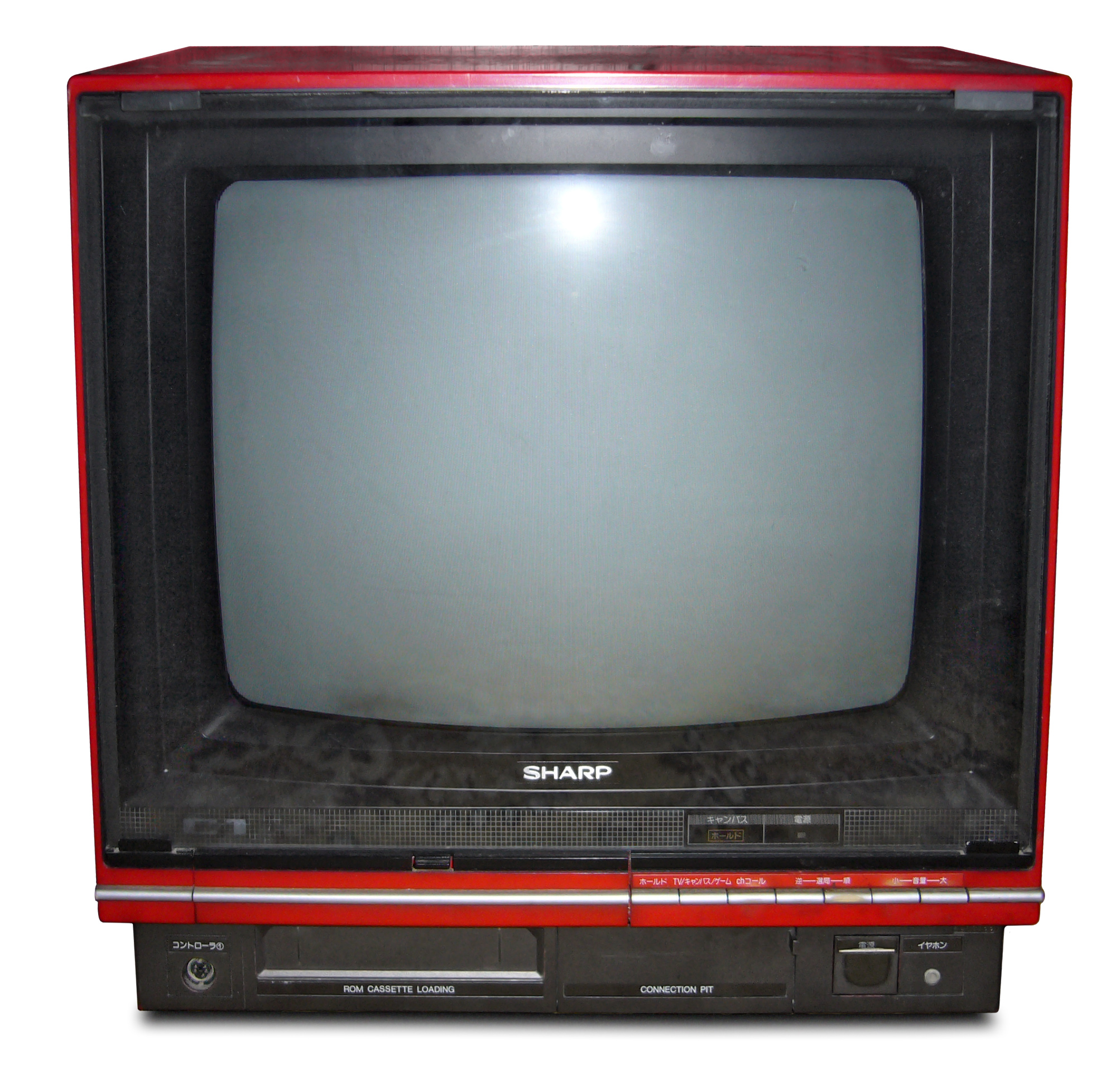 Sharp 14C-C1R